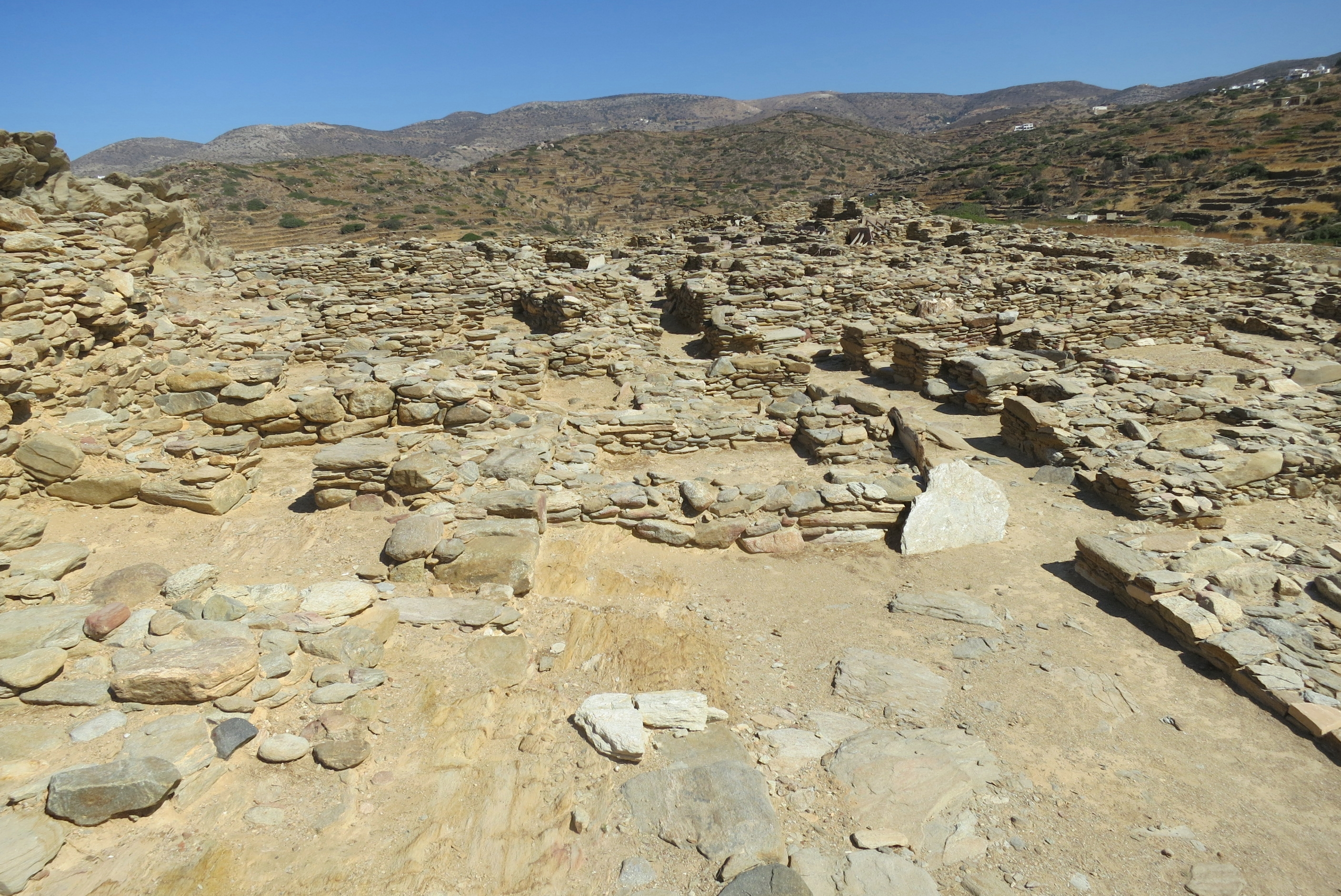 Early Cycladic settlement Skarkos on the island of Ios. One of the largest excavated settlements of this civilization. Early Bronze Age, EC II, 2800 to 2300 BC.